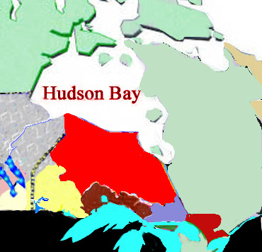 Map of Nishnawbe Aski